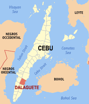 Map of Cebu showing the location of Dalaguete